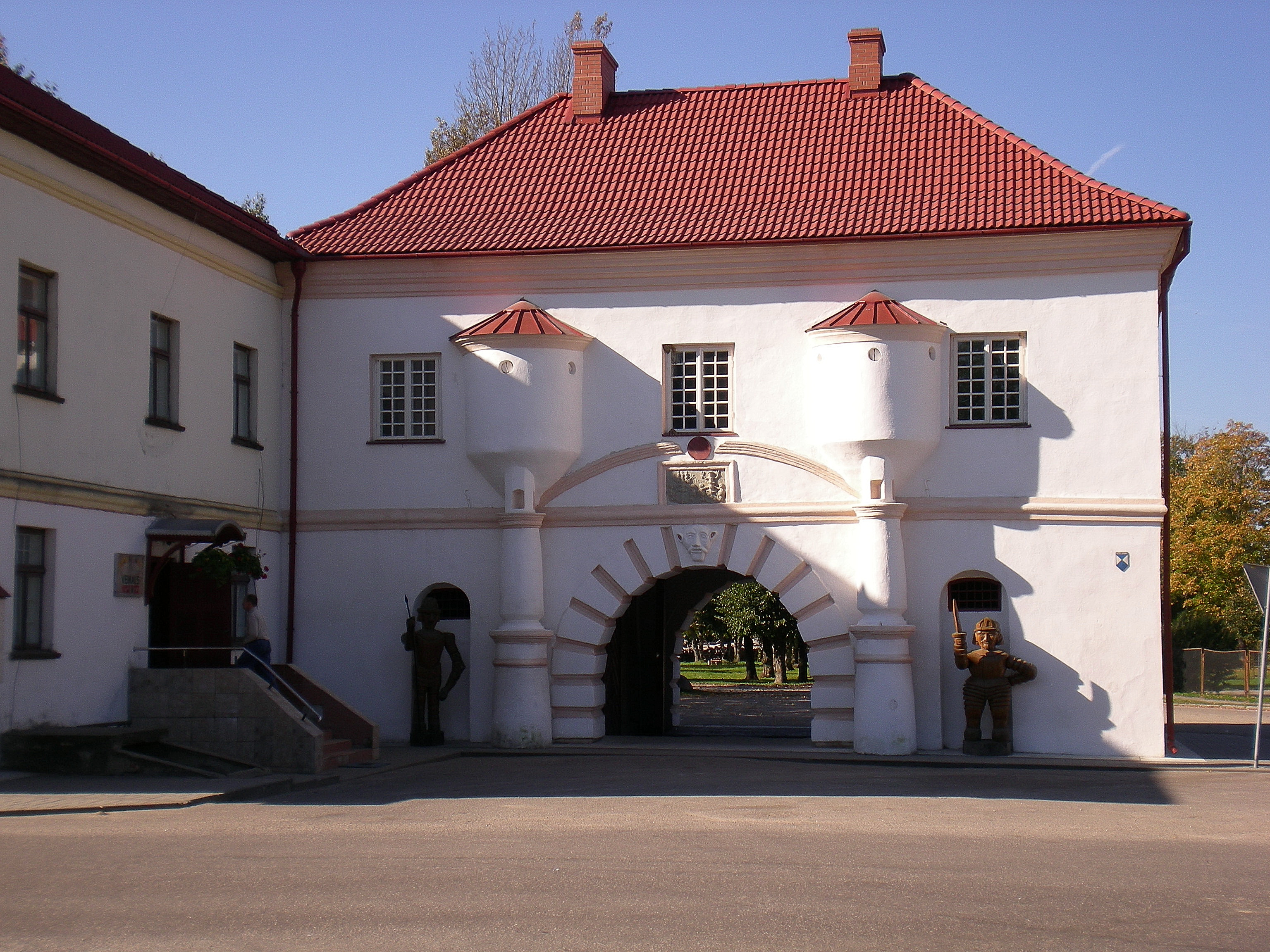 Swedish gates in Priekule